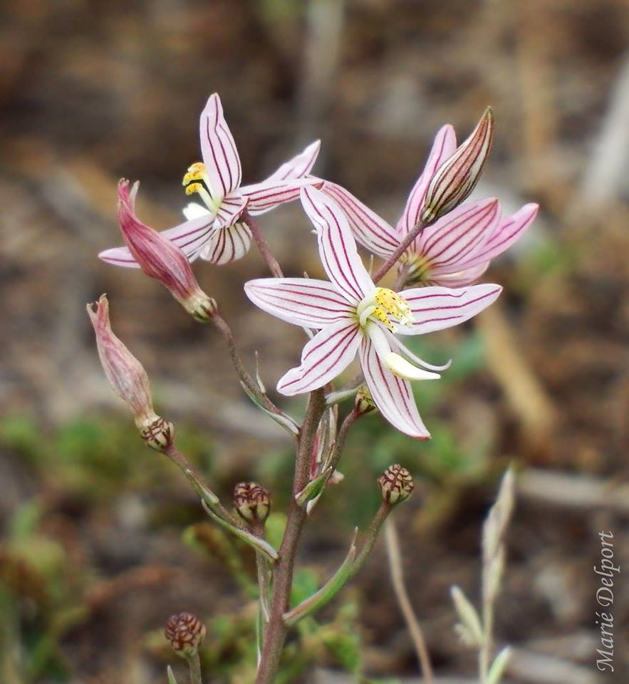 Cyanella lutea L.f. - Colchester, Sundays River Estuary, Port Elizabeth, South Africa